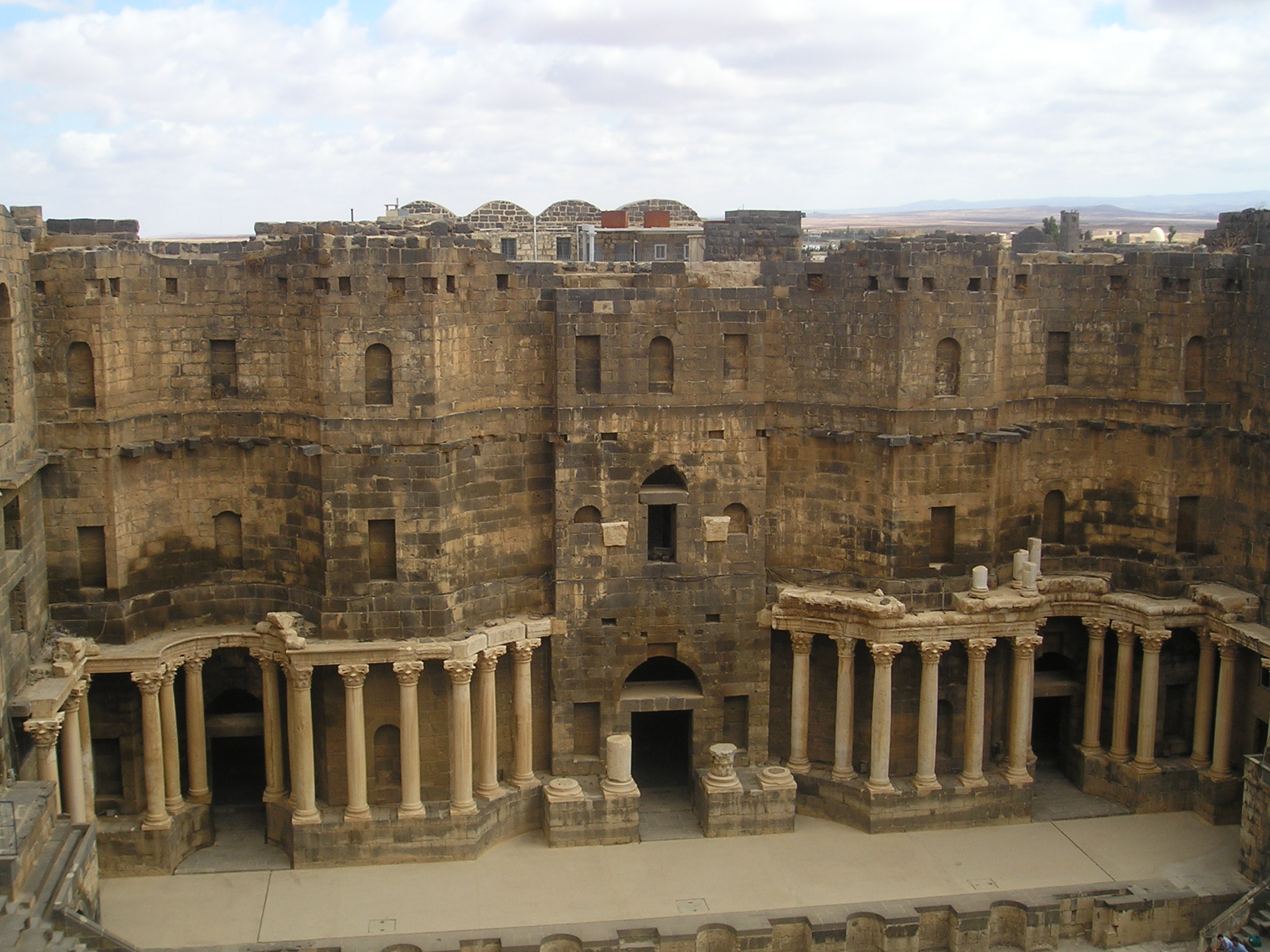 Bosra, Syria - the stage of the theater.